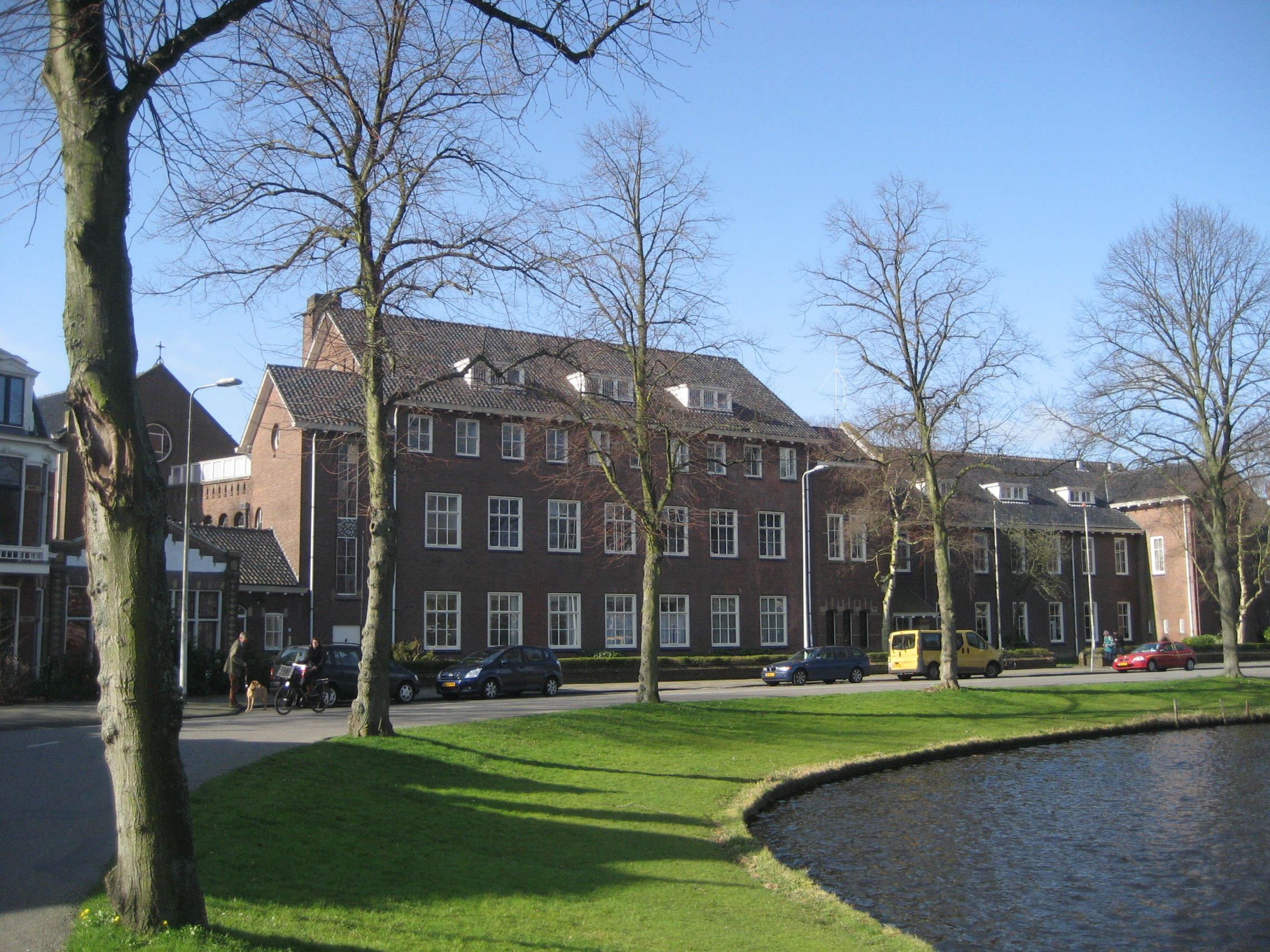 St. Lidwinahuis, Zoeterwoudse Singel 34, 2313 EJ Leiden (The Netherlands). Architects: Jan en Leo van der Laan, Hermans, Theo van der Eerde & Kirch. Former chapel and boarding school for mentally retarded girls (1938-1973).